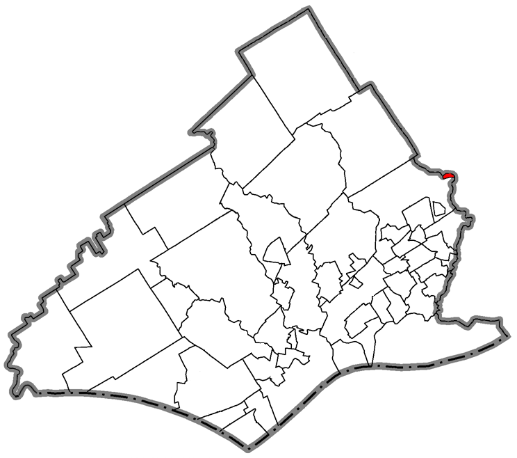 Showing the location within Delaware County, Pennsylvania.